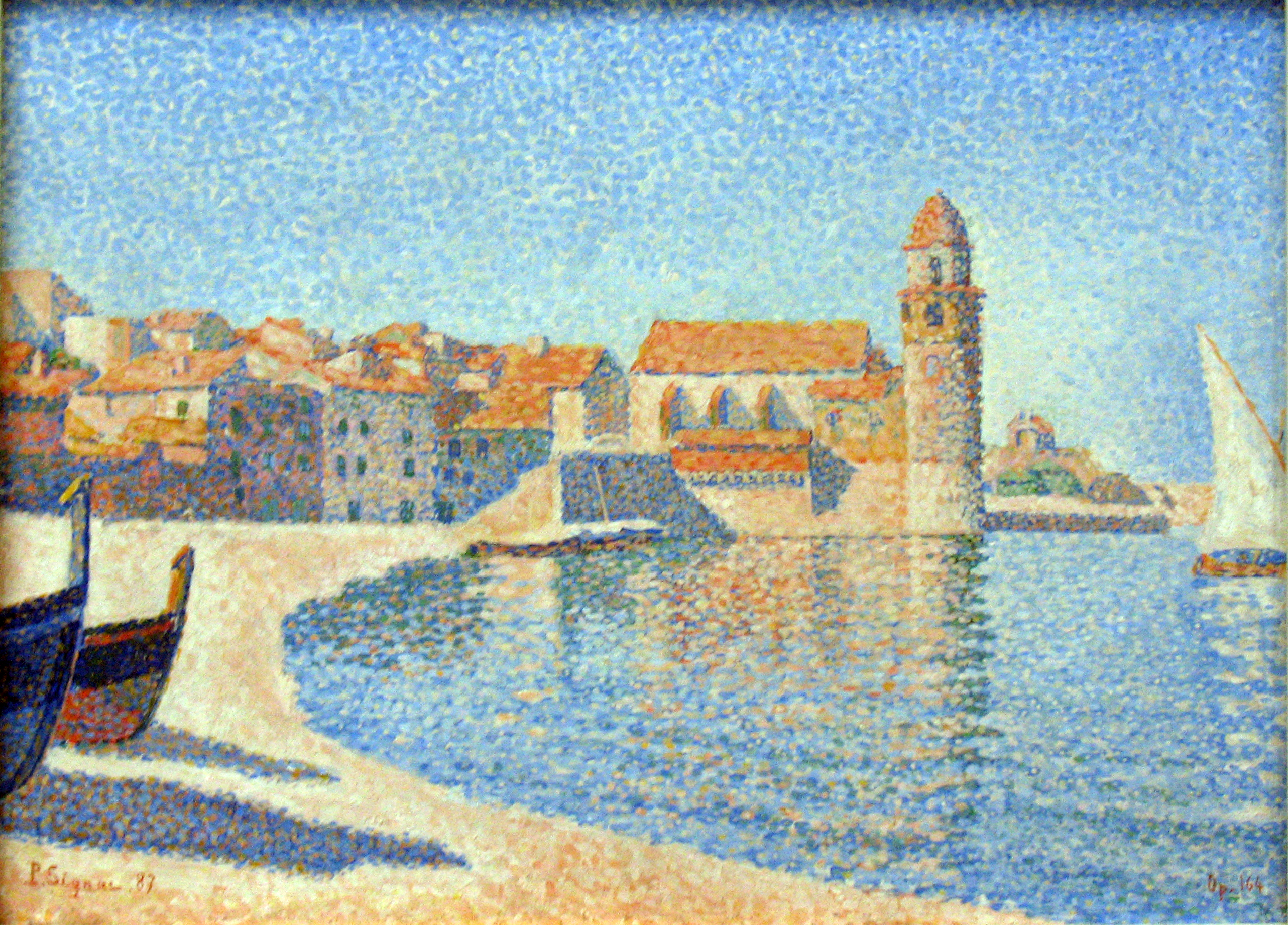 View of Collioure